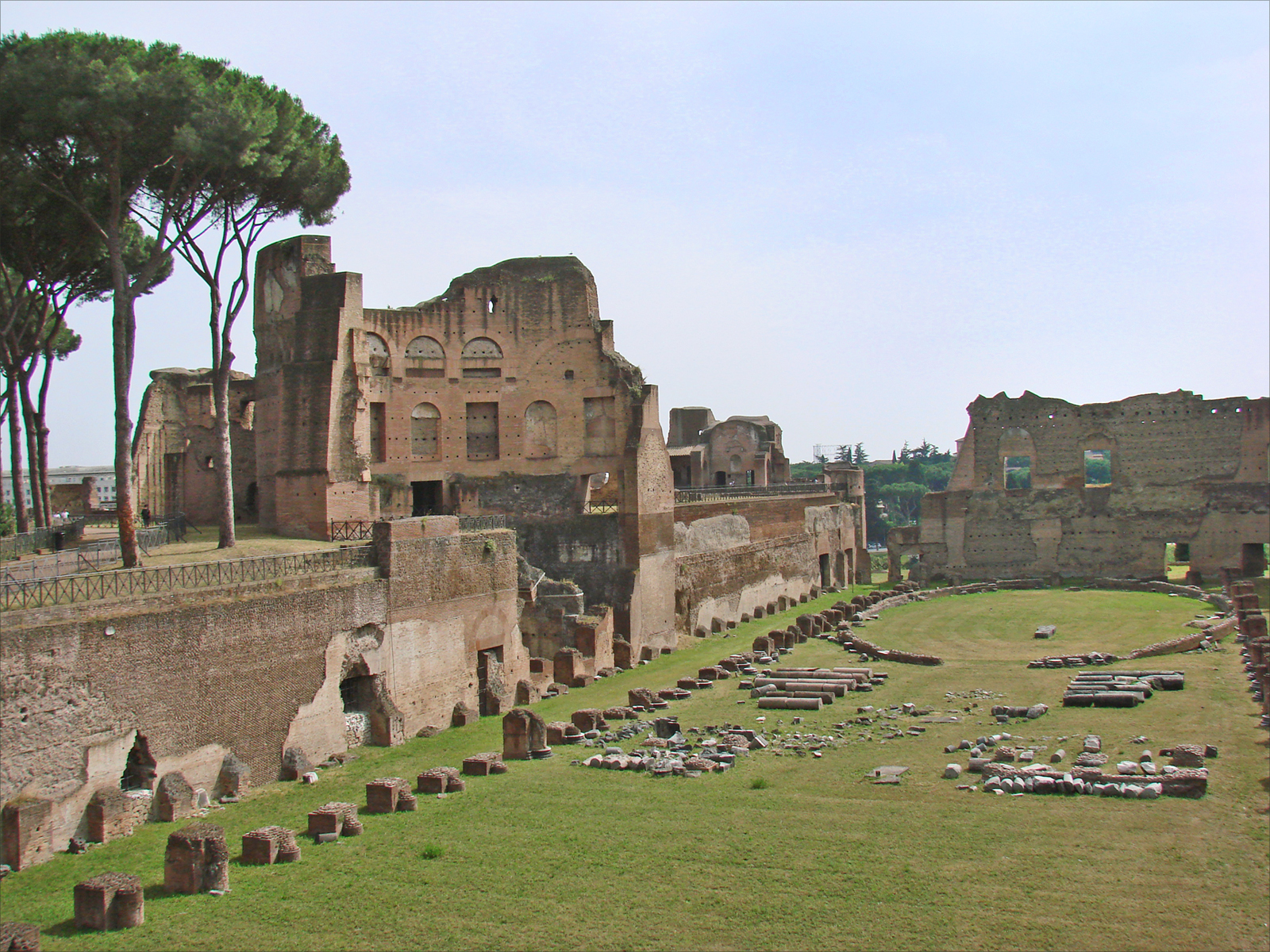 Palatine stadium of Domitian